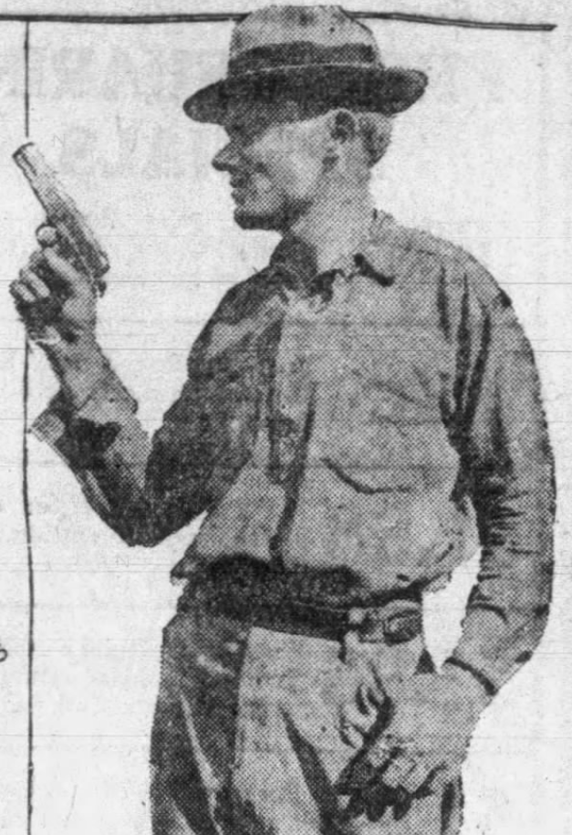 Portrait of Eugene G. Reising giving a semi-automatic pistol demonstration at Camp Perry, Ohio in August 1911 from The Wilkes-Barre Times-Leader, August 22, 1911, page 12